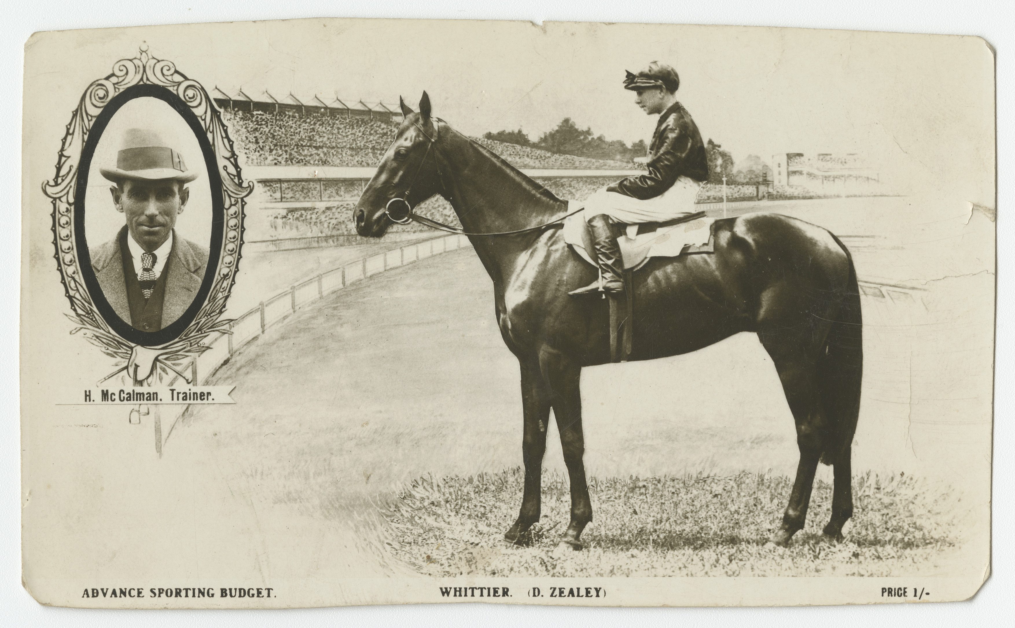 Photograph - Horse 'Whittier', Jockey D.Zealey, Trainer H.McCalman. Advance Sporting Budget Photo Cards, Melbourne.